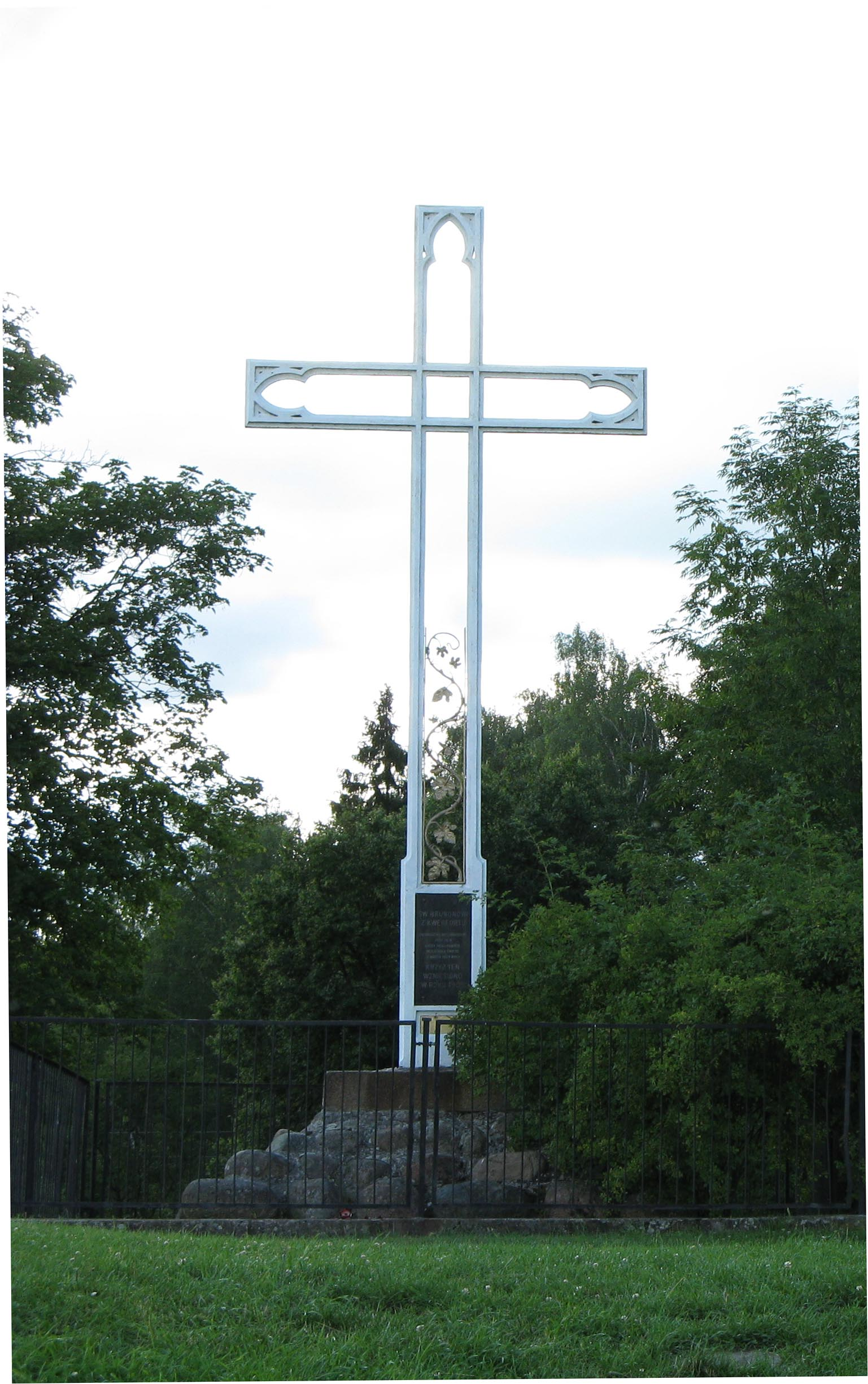 Bruno of Querfurt Cross in Giżycko